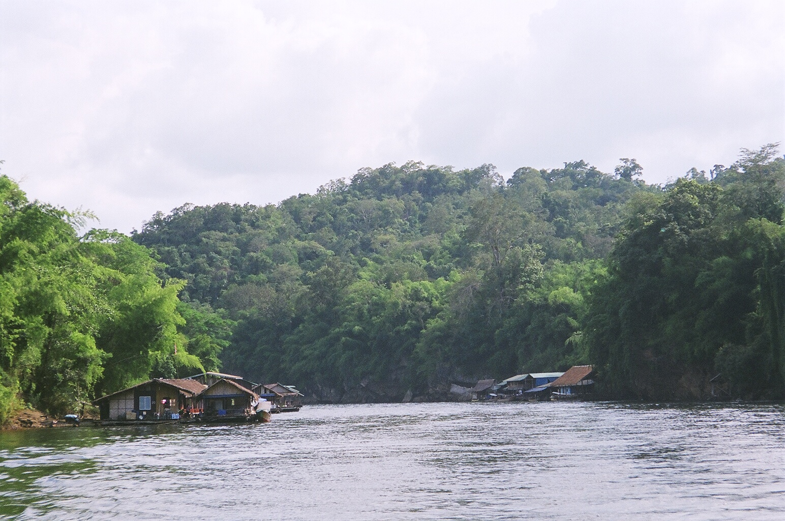 River Khwae View in Sai Yok National Park, Kanchanaburi, Thailand